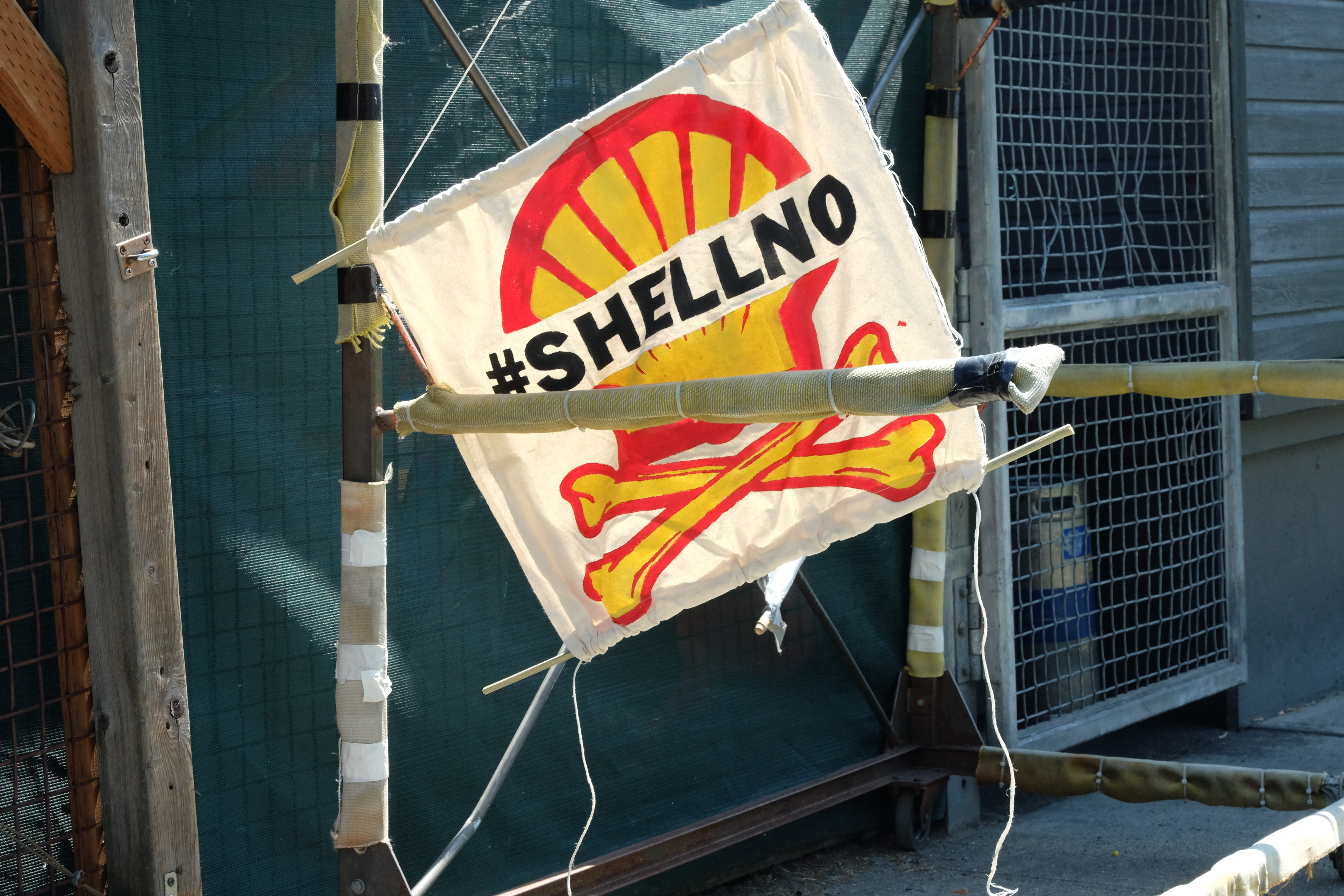 "ShellNo" banner at Seacrest Park in West Seattle, part of the Seattle Arctic drilling protests.